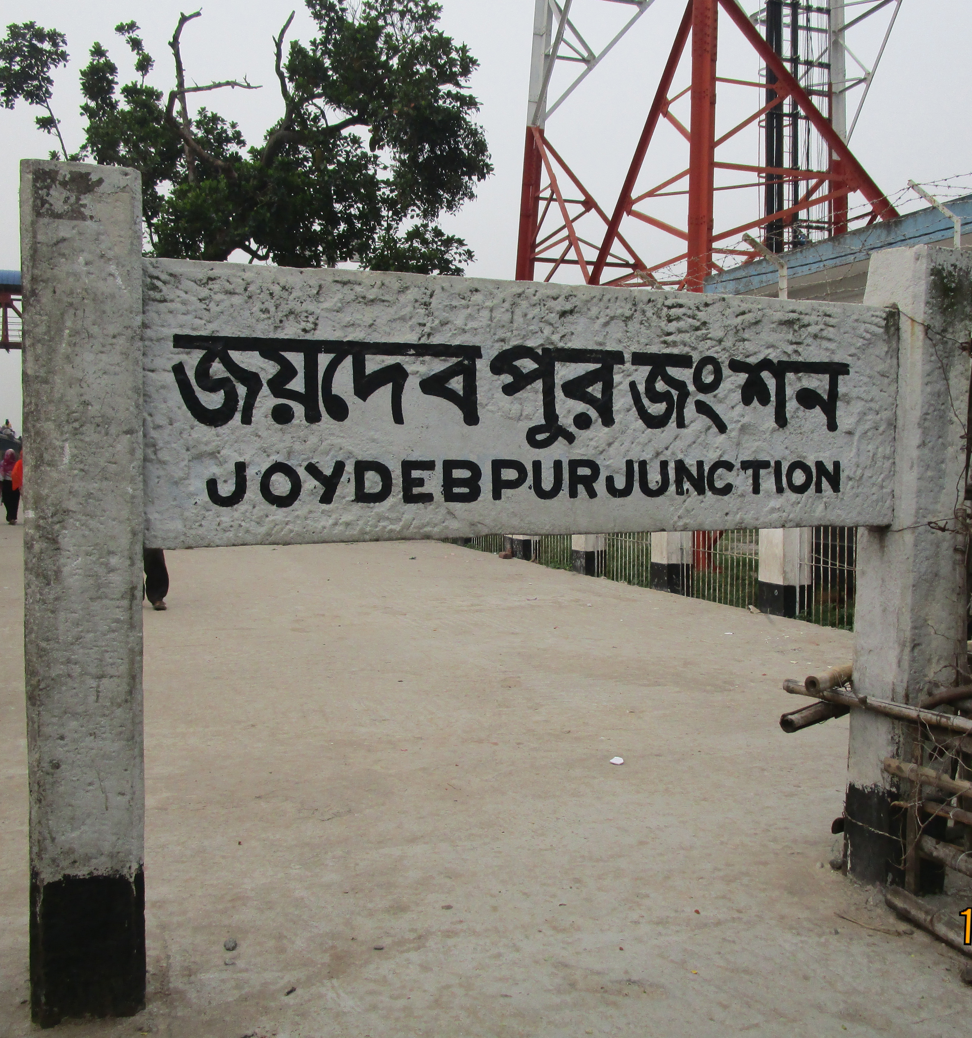 Joydevpur Railway Station